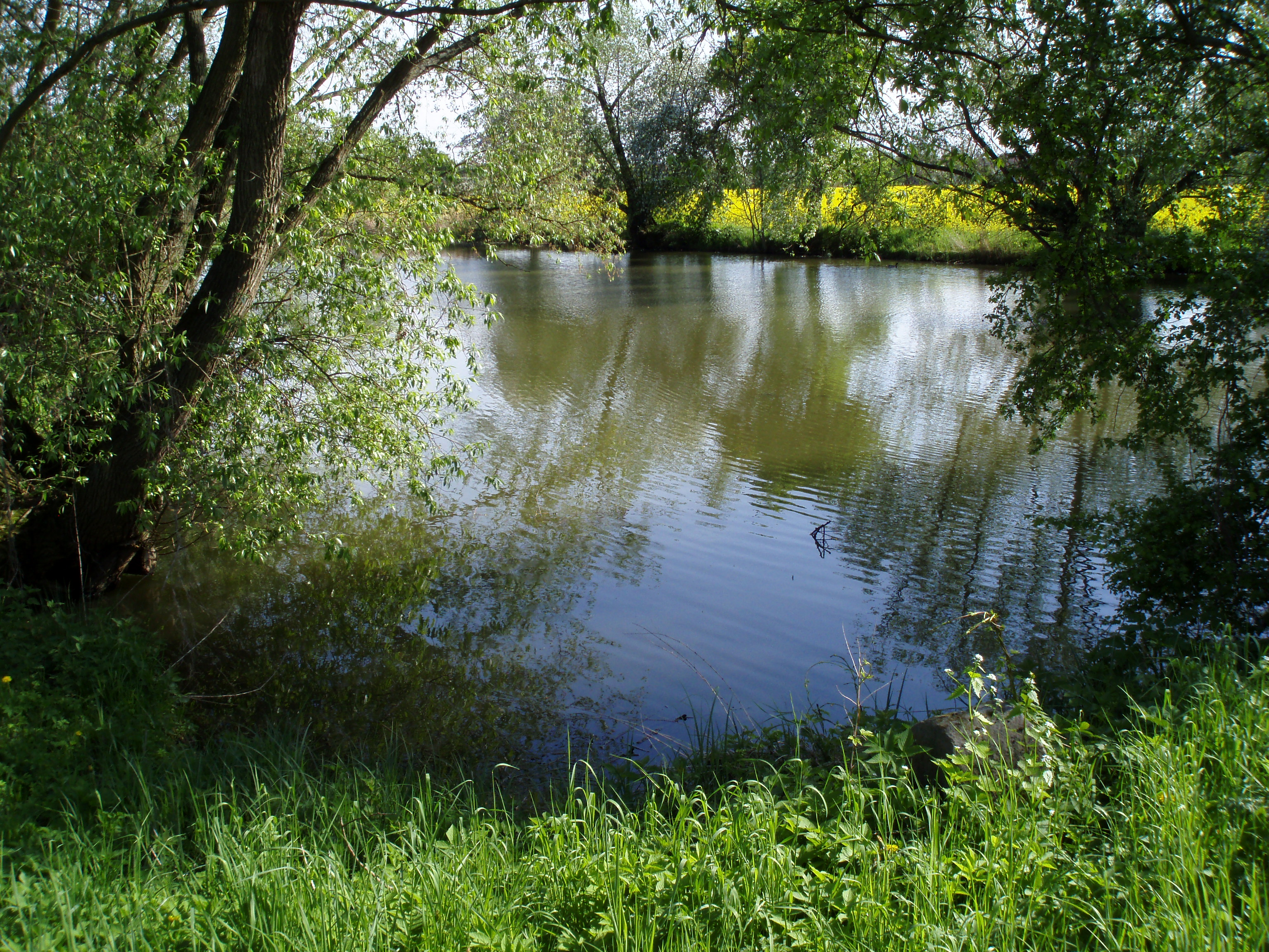 Pond in Kydlinov (Hradec Králové, Czechia)